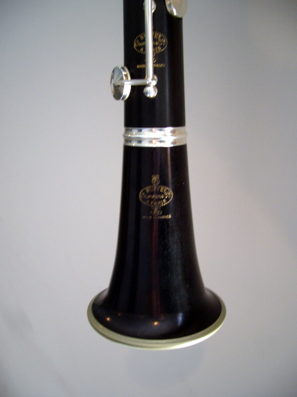 Bell of a Buffet Bb clarinet.